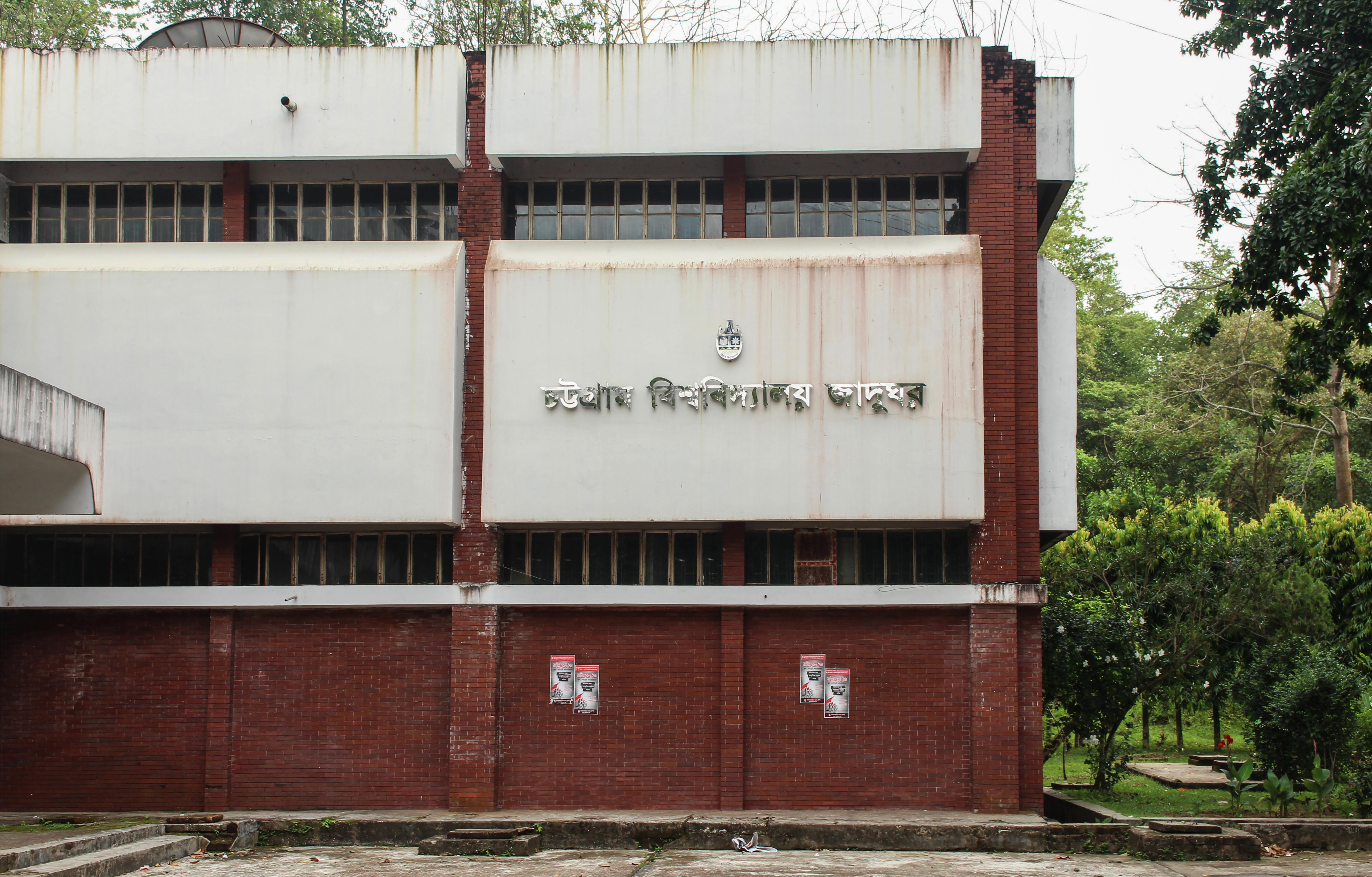 Chittagong University Museum, University of Chittagong